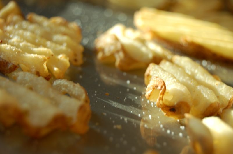 Waffle-cut fries sprinkled with salt.